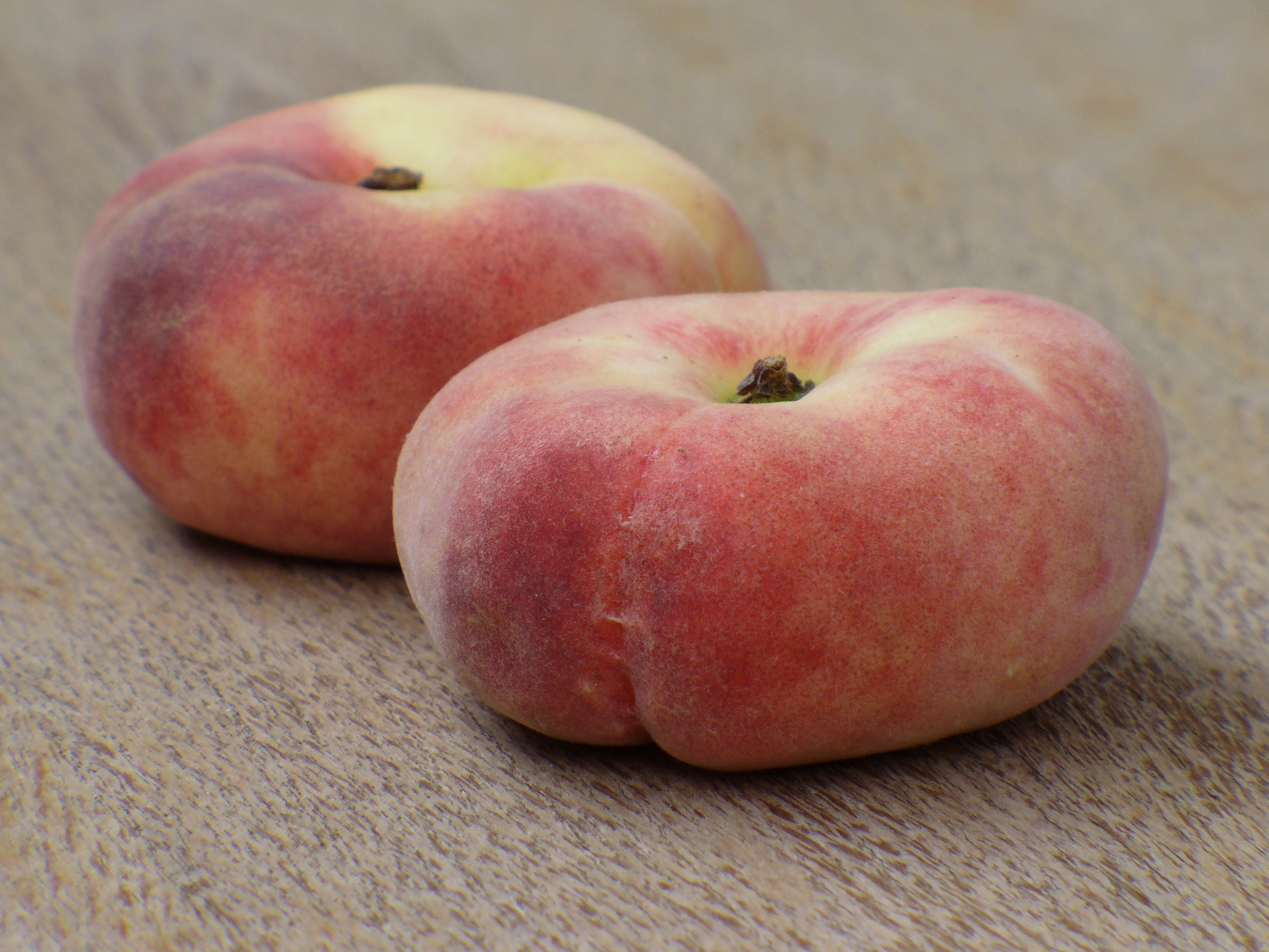 from the shop